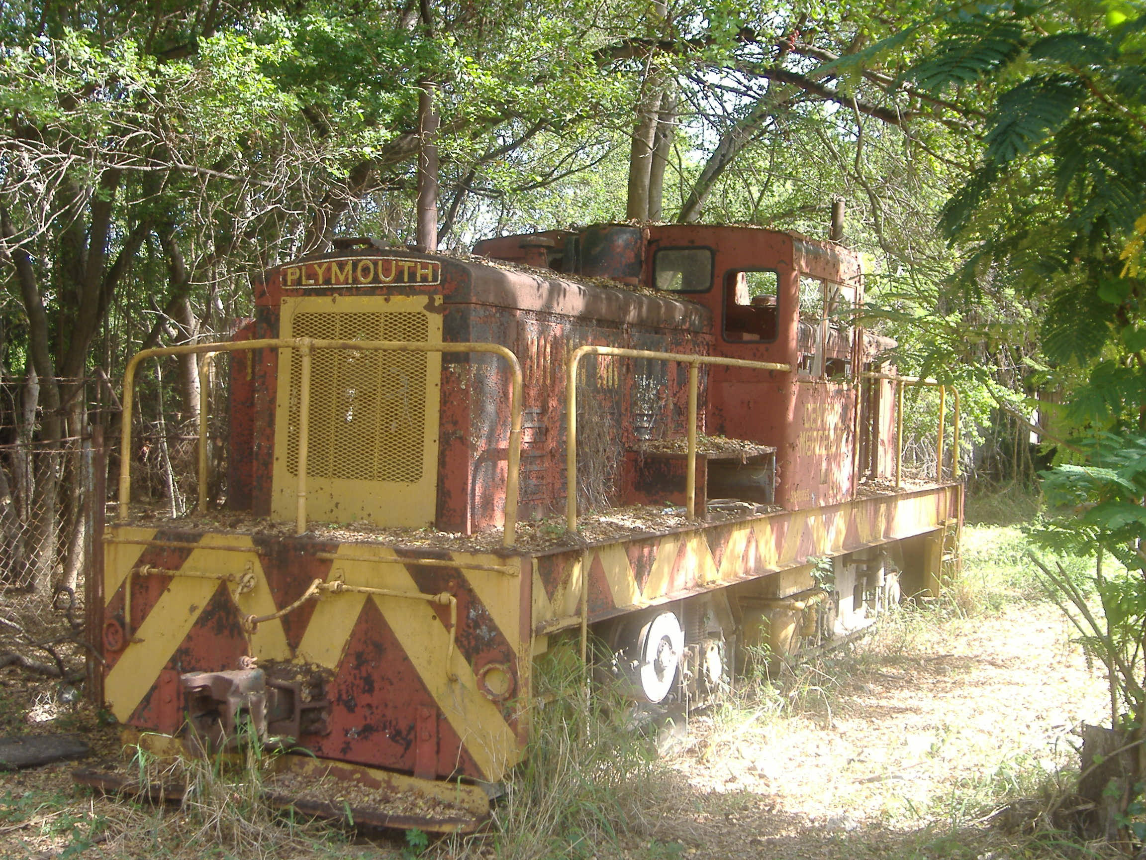 Remnants of a train in the Mercedita Refinery in Ponce, Puerto Rico